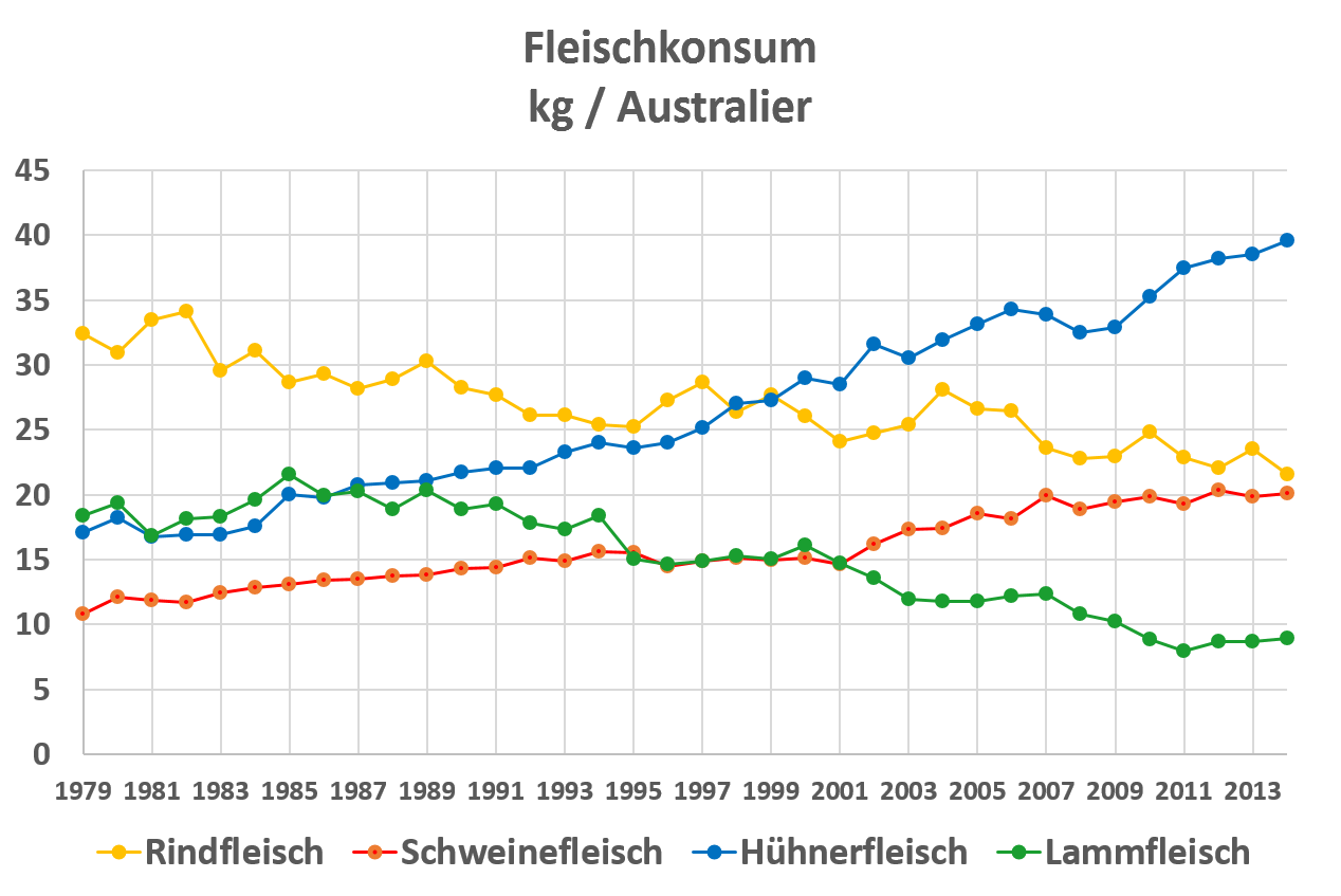 Australian per capita consumption of beef, pork, chicken and lamb meat in kg, 1979-2014